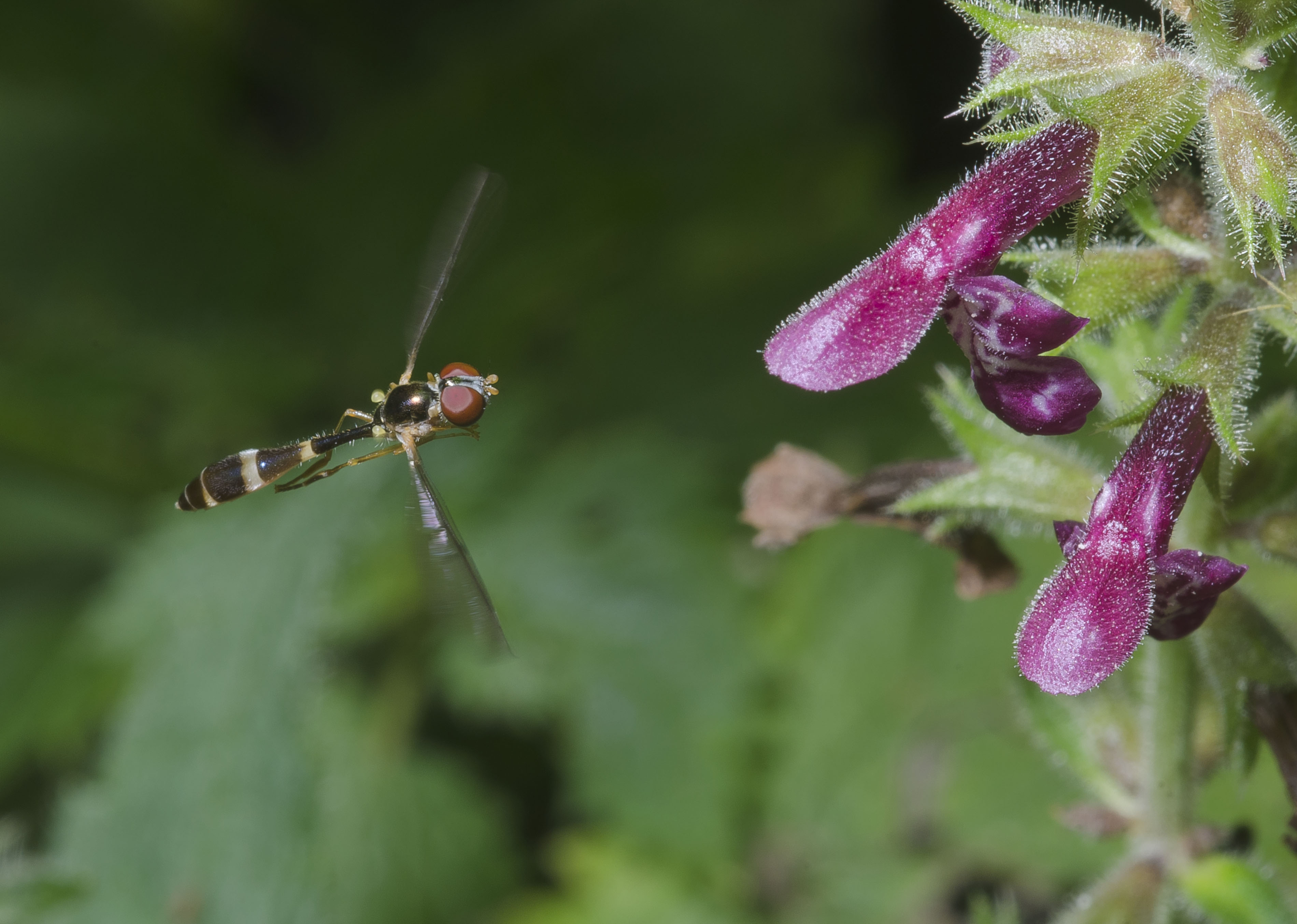 Baccha elongata, forest near Stuttgart, Germany. Thanks to the members of Entomologie.de for the identification.